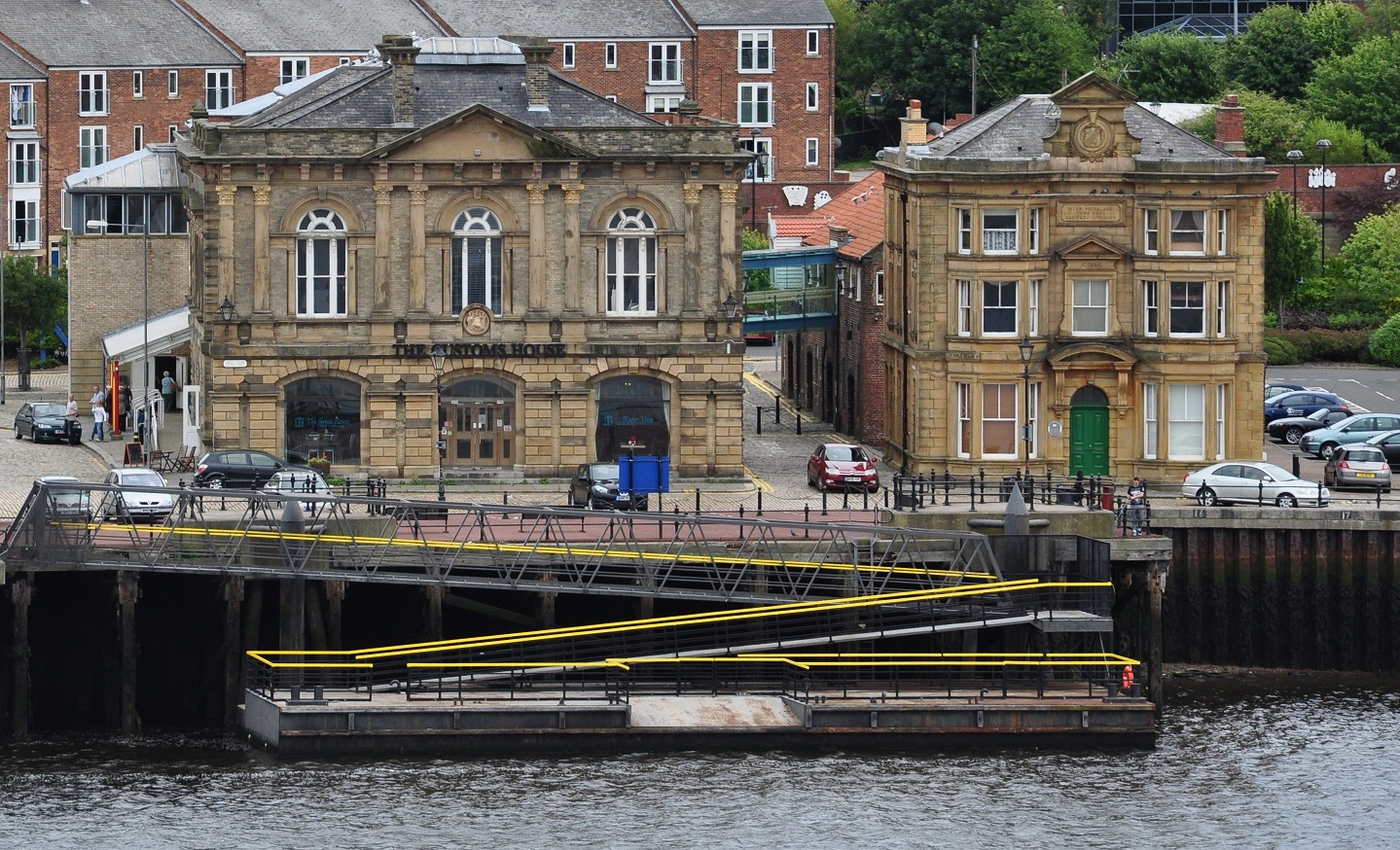 The Customs House on the historic Mill Dam riverside (River Tyne) in South Shields (South Tyneside, Tyne and Wear, England, United Kingdom). The building is a theatre and an arts venue.